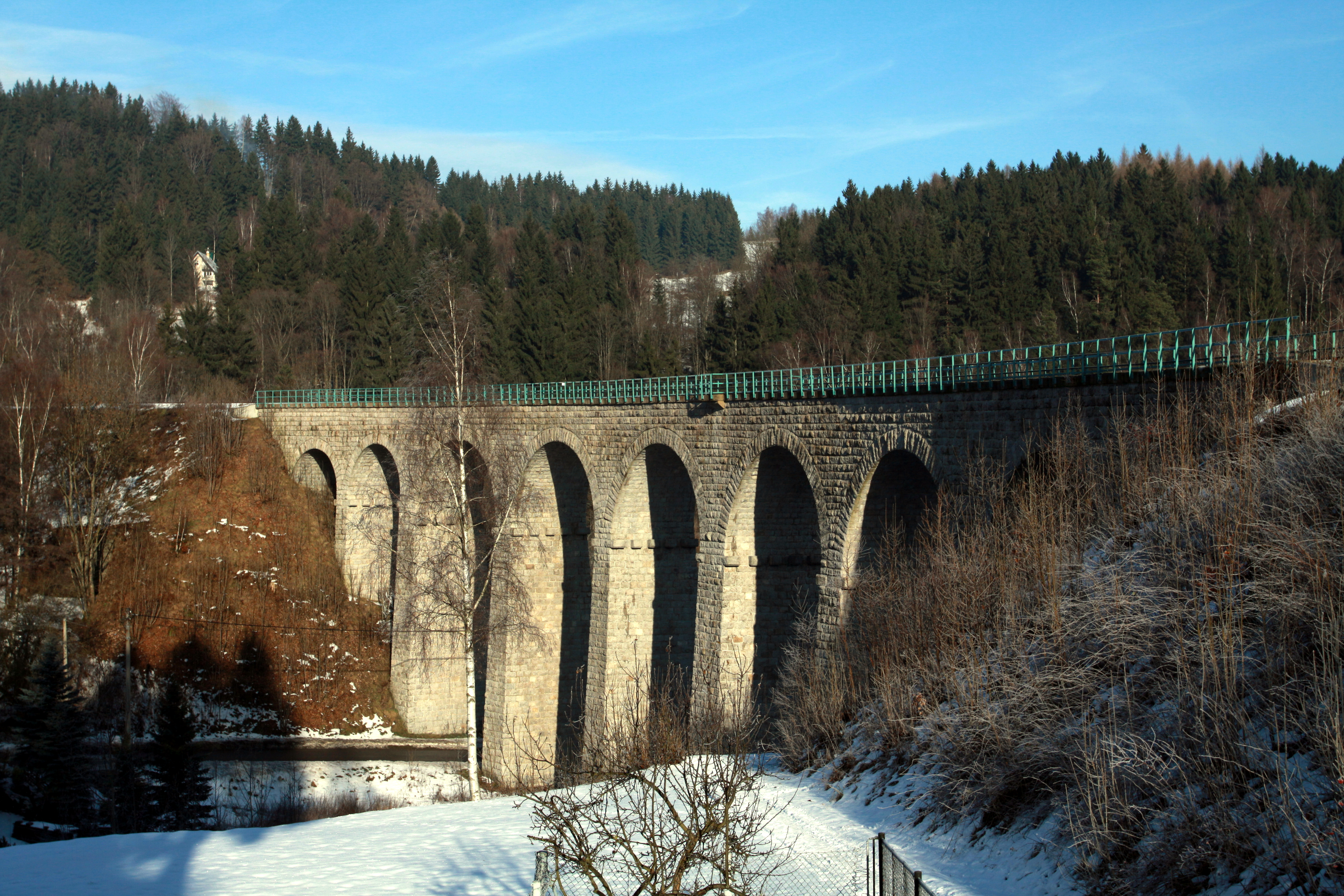 Railway viaduct Smržovka in Smržovka, Jablonec nad Nisou District, Czech Republic